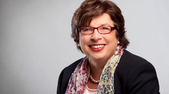 Dr. Ellen Lorentz 2012